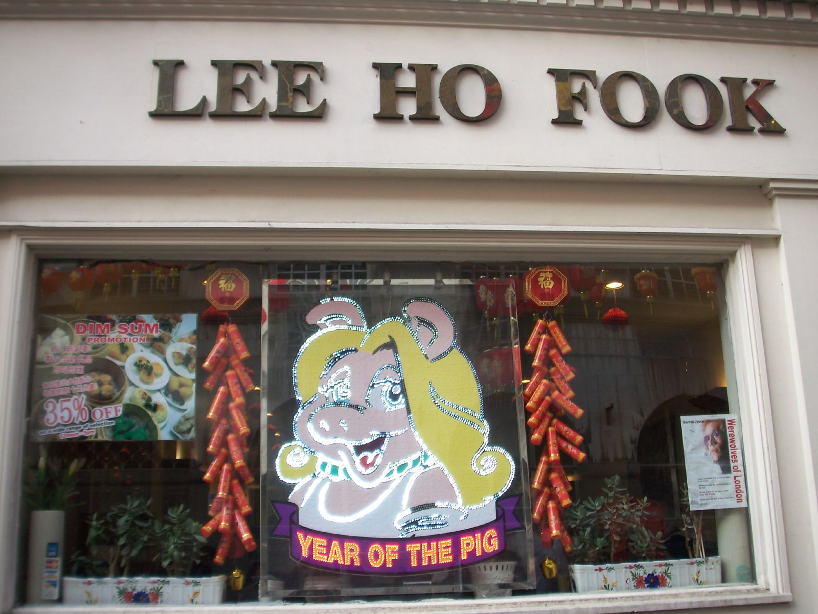 Outgoing. Window at Warren Zevon's favourite London restaurant